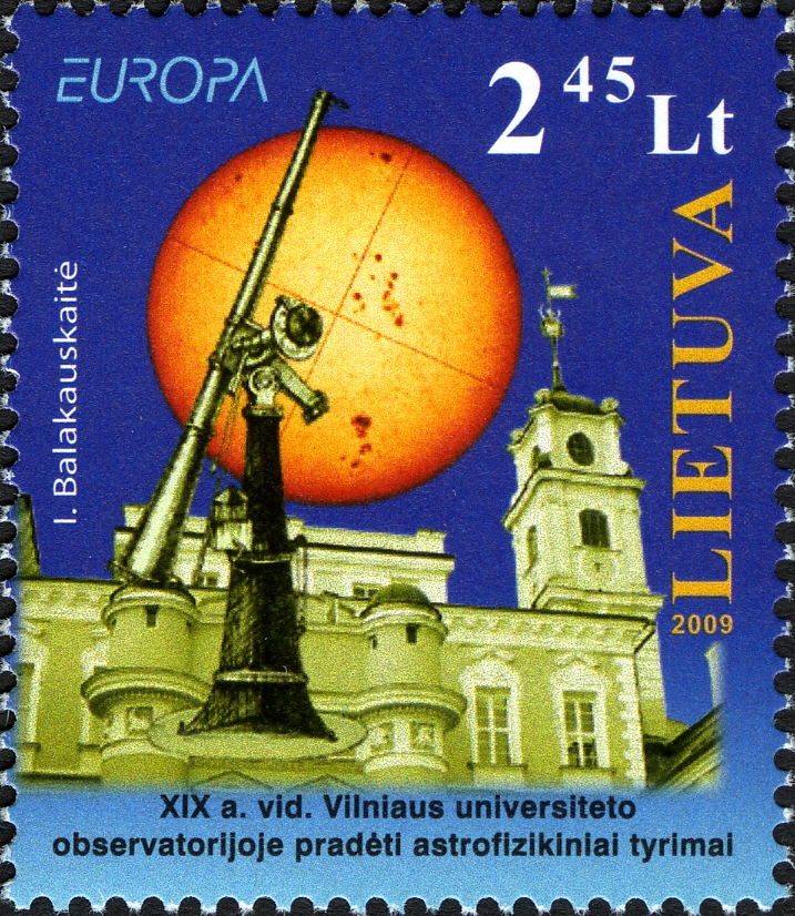 Stamp of Lithuania: Astronomy-Vilnius University Observatory